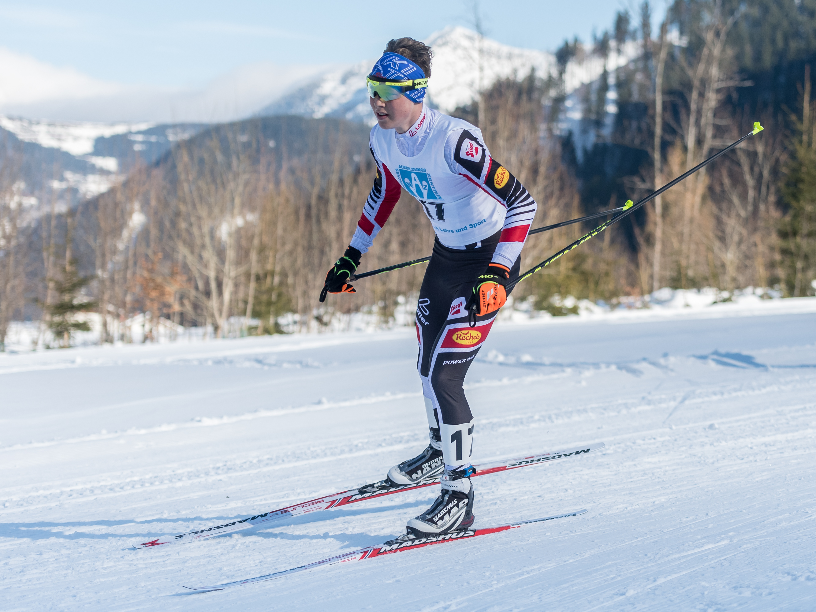 11/2/2017 Eisenerz, FIS Continental Cup Nordic Combined.